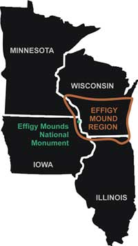 map of effigy mound culture in southern Wisconsin and neighboring states